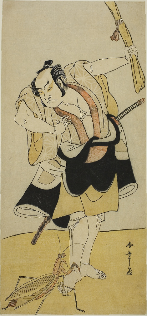 Katsukawa Shunsho (1726-1792), "The Actor Otani Hiroji III in an Unidentified Role (1775–1785)". Frederick W. Gookin Collection.